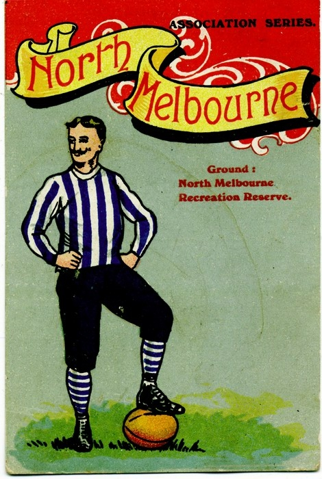 1906 series of Valentine's Day postcards